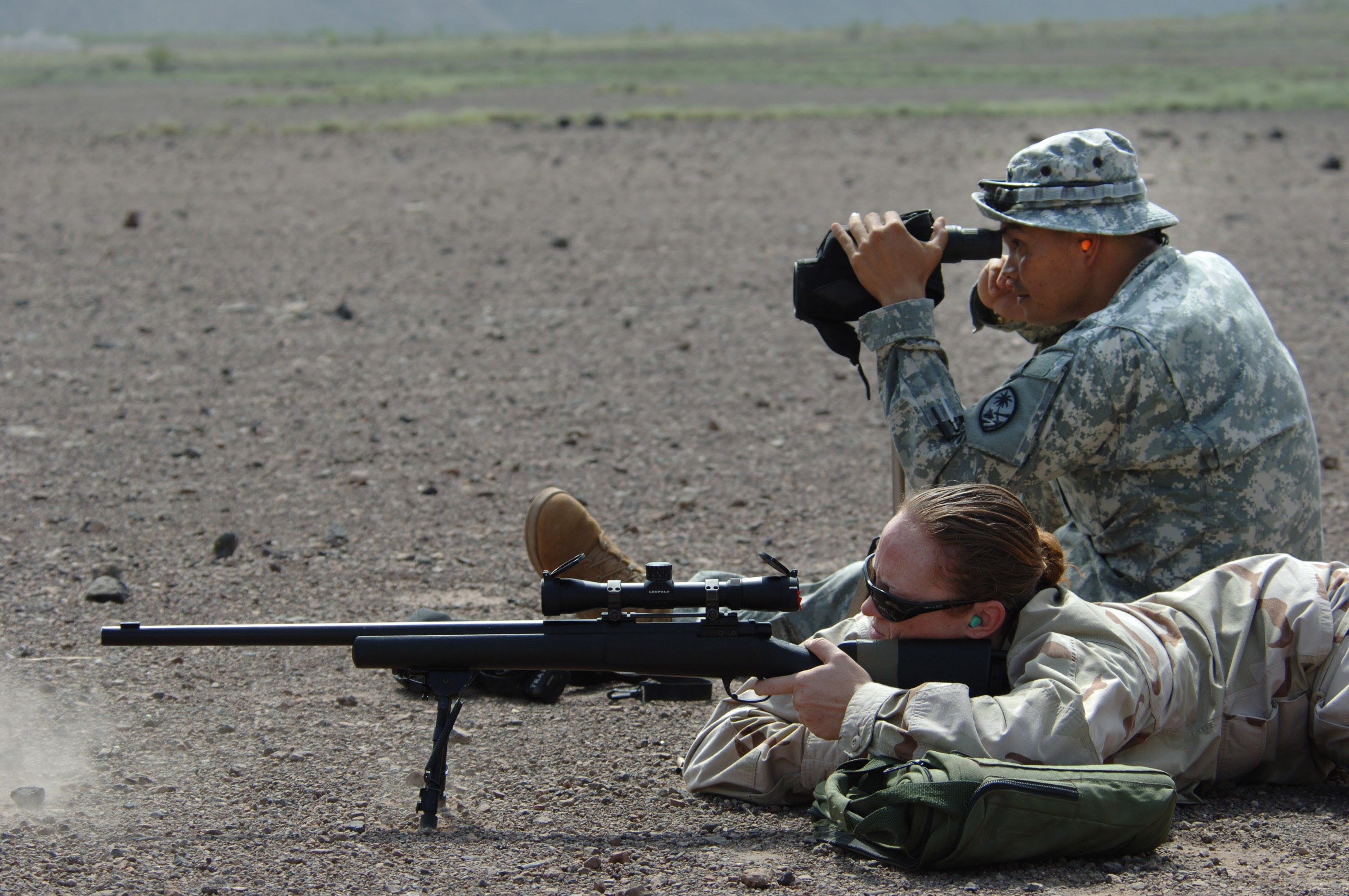 Guam National Guard Sergeant 1st Class Ronald Brantley monitors Petty Officer 2nd Class Angela McLane's target during weapons qualification for members of Combined Joint Task Force - Horn of Africa in Djibouti August 25. General George W. Casey Jr. said Sergeant 1st Class Brantley and other National Guard and Reserve Soldiers are making a vital contribution to fighting the war on terror.